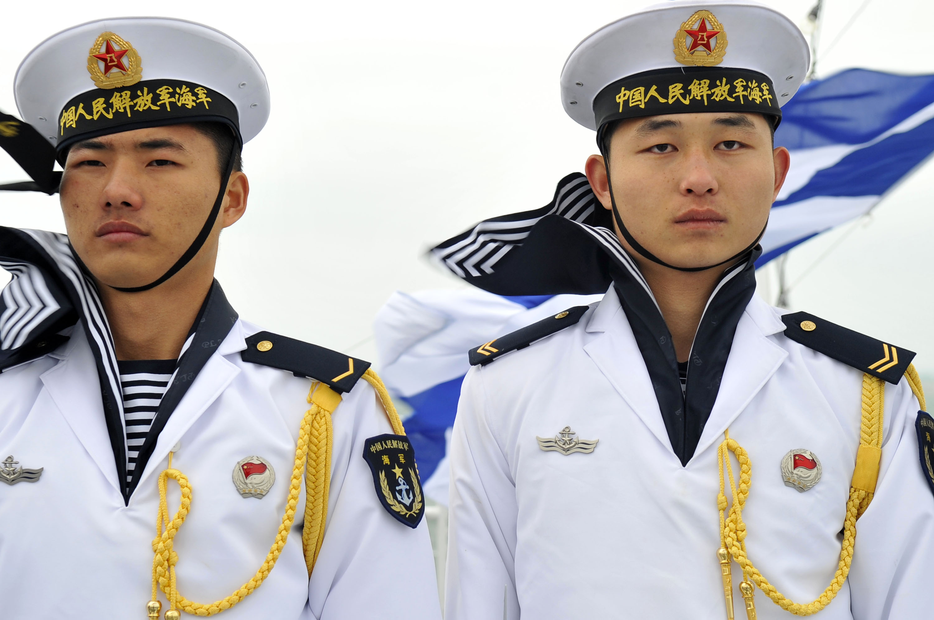 QINGDAO, China (April 20, 2009) People's Liberation Army Navy sailors stand at attention during a visit by Chief of Naval Operations (CNO) Adm. Gary Roughead aboard the People's Liberation Army Navy type 920 hospital ship Daishandao (AHH 866) in Qingdao, China. Roughead visited China to participate in the 60th anniversary of the founding of the PLA Navy and to foster naval and military relationships between the two nations and explore areas for enhanced cooperation. (U.S. Navy photo by Mass Communication 1st Class Tiffini M. Jones/Released)